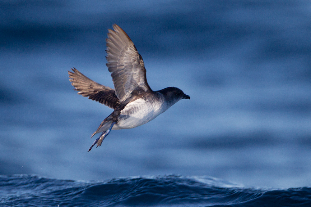 Common Diving Petrel (Pelecanoides urinatrix), East of the Tasman Peninsula, Tasmania, Australia